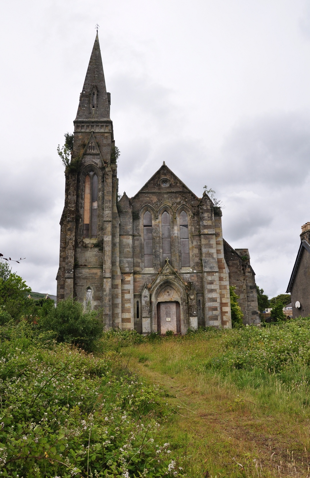 The derelict St. George's church in Lamlash, Isle of Arran, Scotland. It is on the seafront and has been abandoned since 1947.